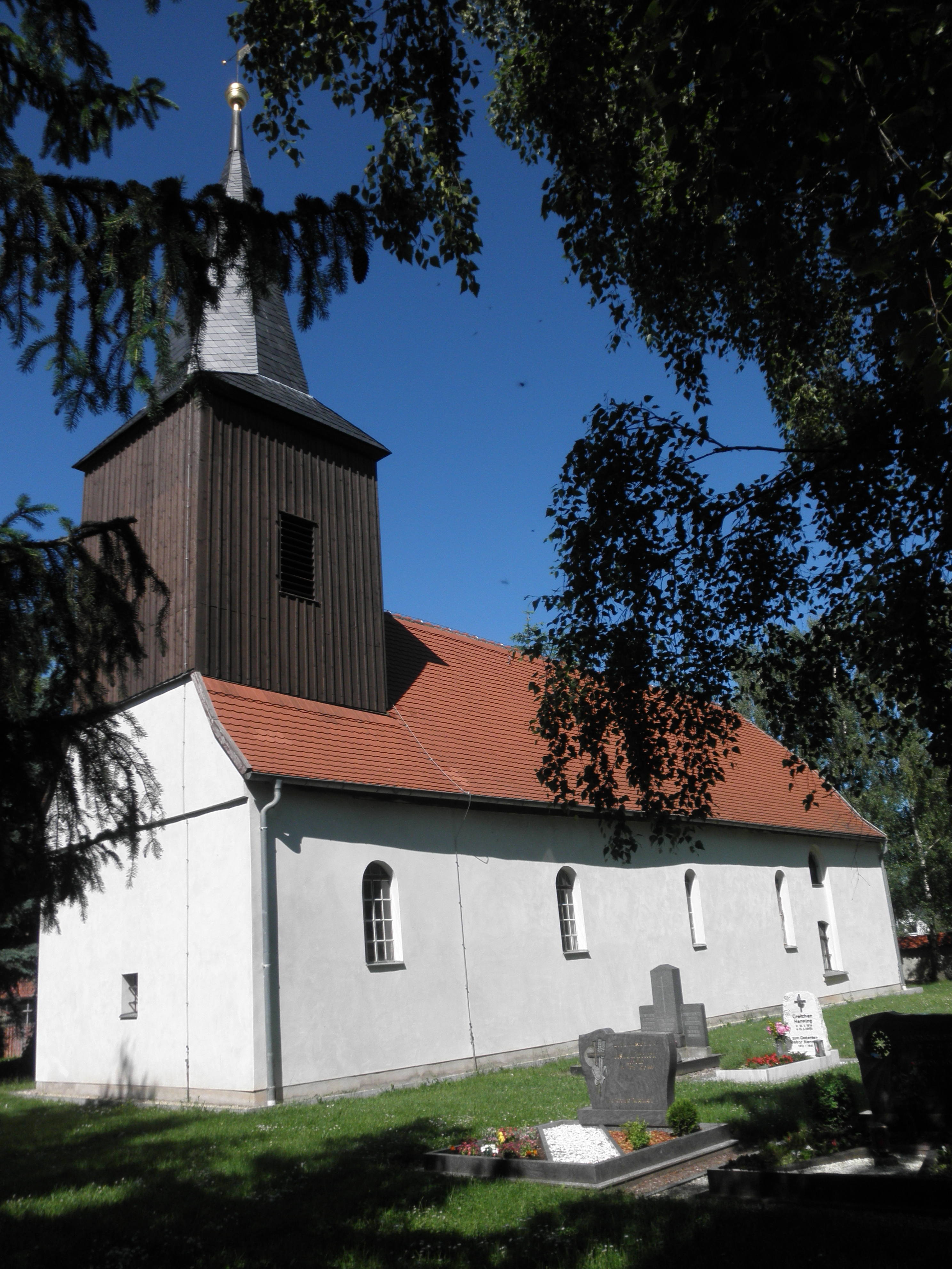 Church in Alperstedt